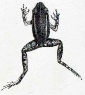 Original illustration of the holotype of Allobates trilineatus (Boulenger, 1884)